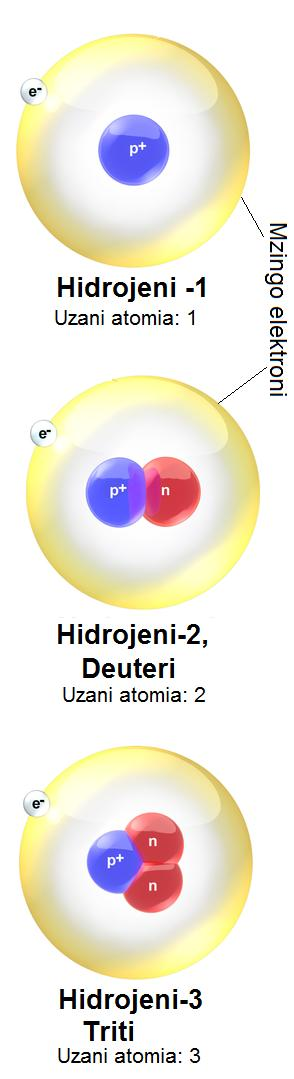 from file:Blausen 0530 HydrogenIsotopes.png, swahilized